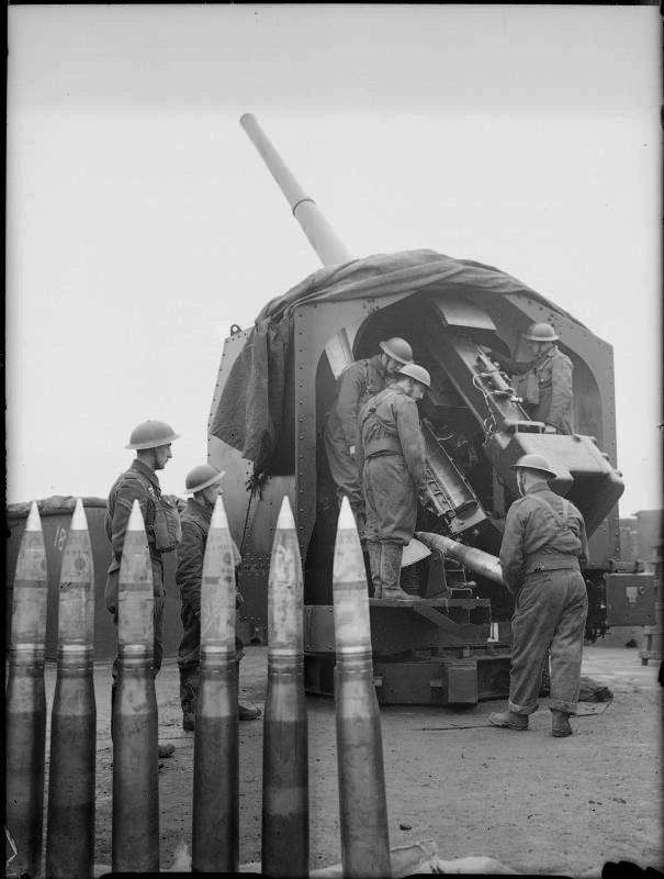 4.5-inch anti-aircraft gun of 207th Anti-Aircraft Battery, Royal Artillery, at Iwade near Sittingbourne in Kent.